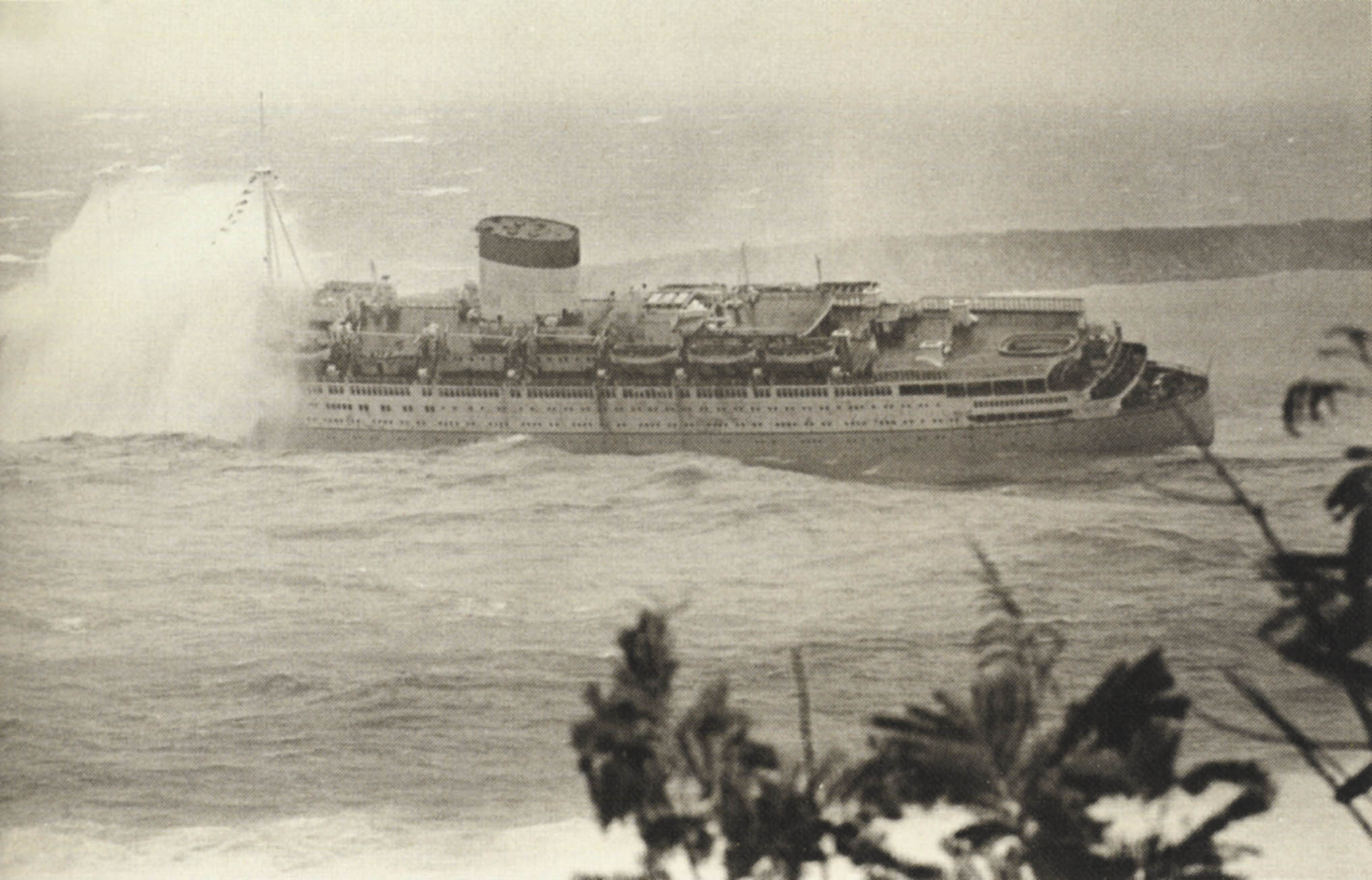 SS Caribia breaks up on the breakwater outside Apra Harbor, Guam, August 12, 1974.